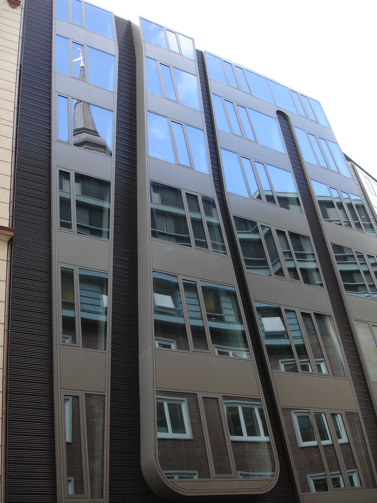 Office building Steckelhörn 11, Hamburg-Altstadt, by architect J. Mayer H